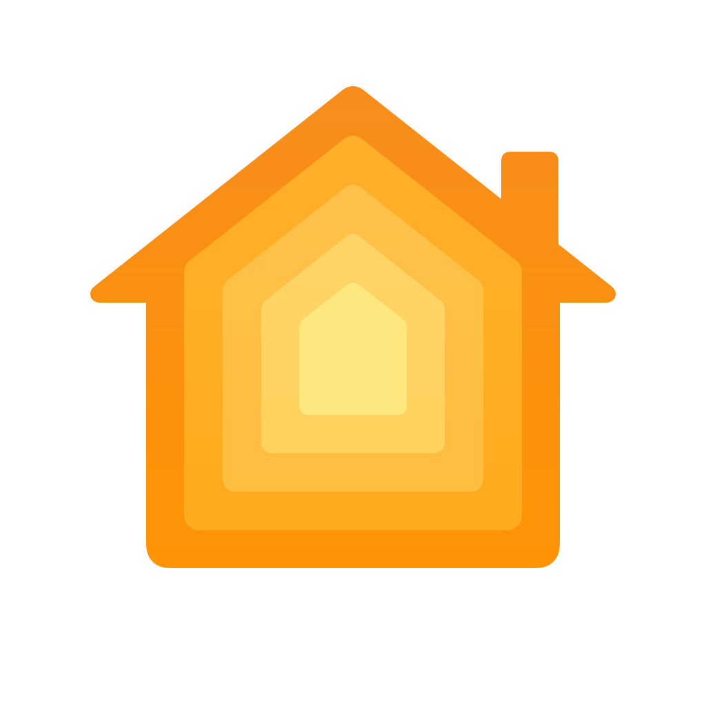 HomeKit icon